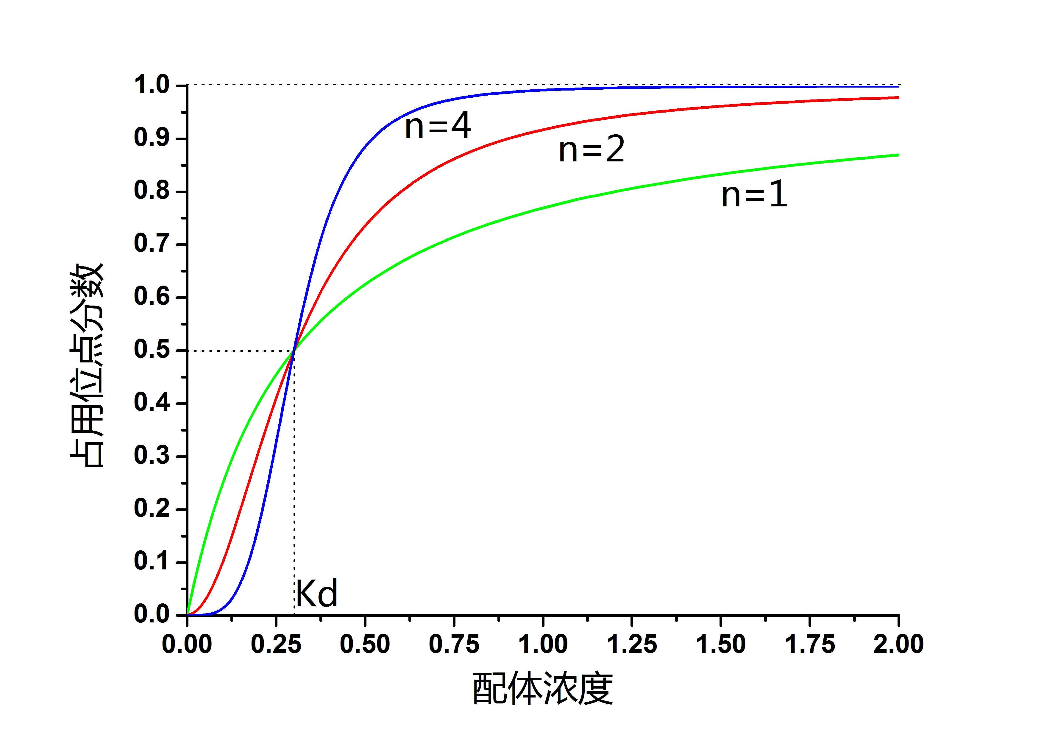 Graph of Hill equation